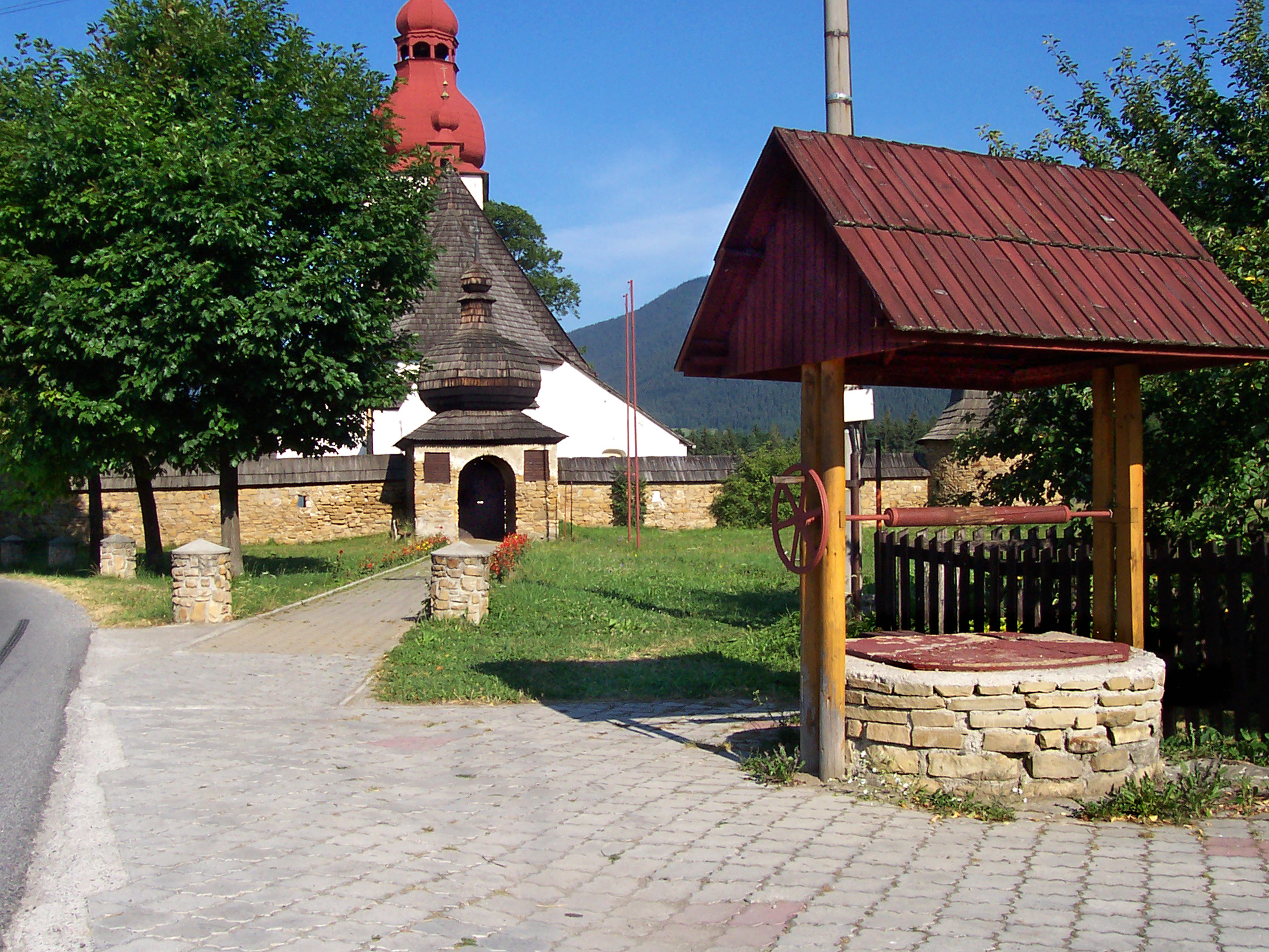 Church at Liptovské Matiašovce. Liptov, Slovakia